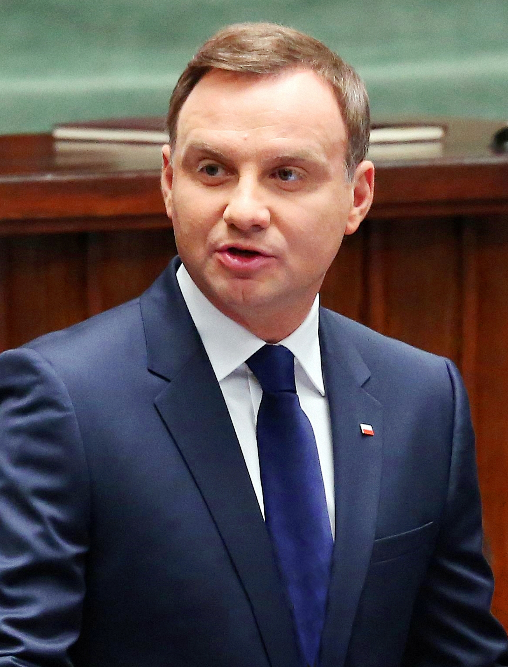 President Andrzej Duda preaching the message of the National Assembly convened to receive the oath from a newly elected President